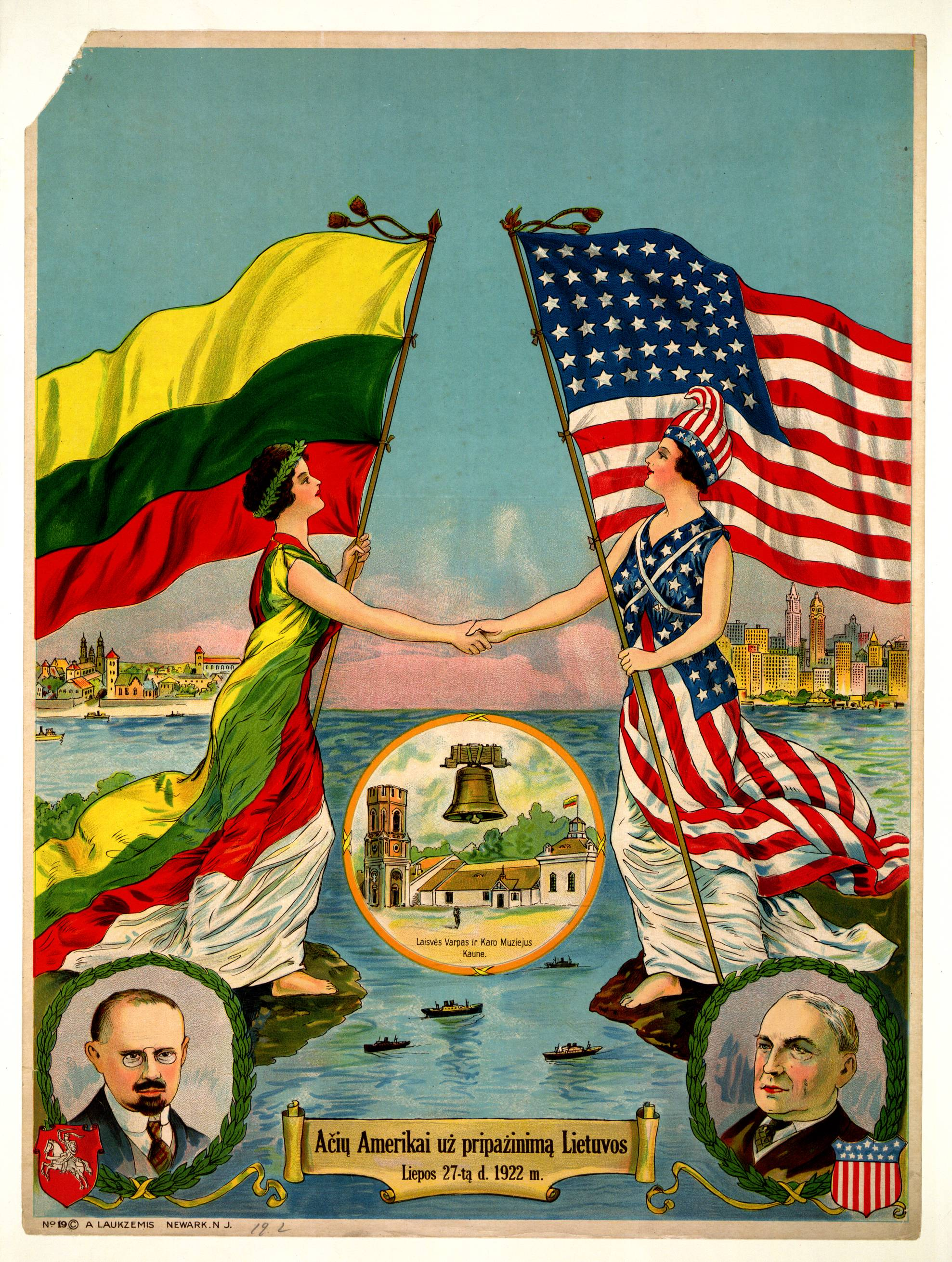 A poster from Lithuania celebrating the recognition of Lithuania by USA. In the bottom picture, there are Aleksandras Stulginskis, as the first President of Lithuania, and Warren G. Harding, as the 29th President of the USA.